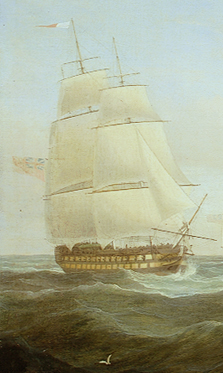 The East Indiamen 'Minerva', 'Scaleby Castle' and 'Charles Grant'